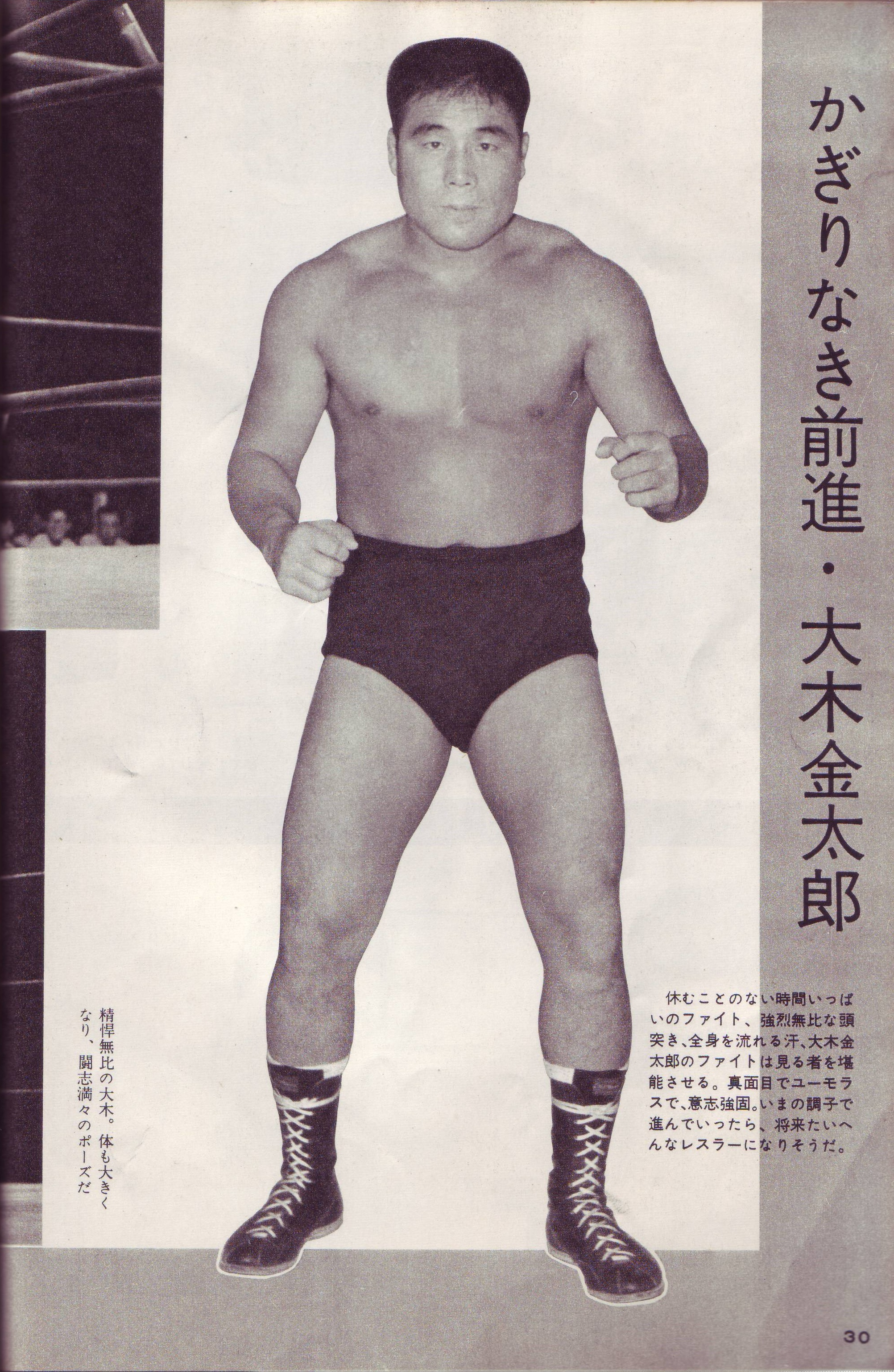 Kintaro Ohki. taken in Before 1962.